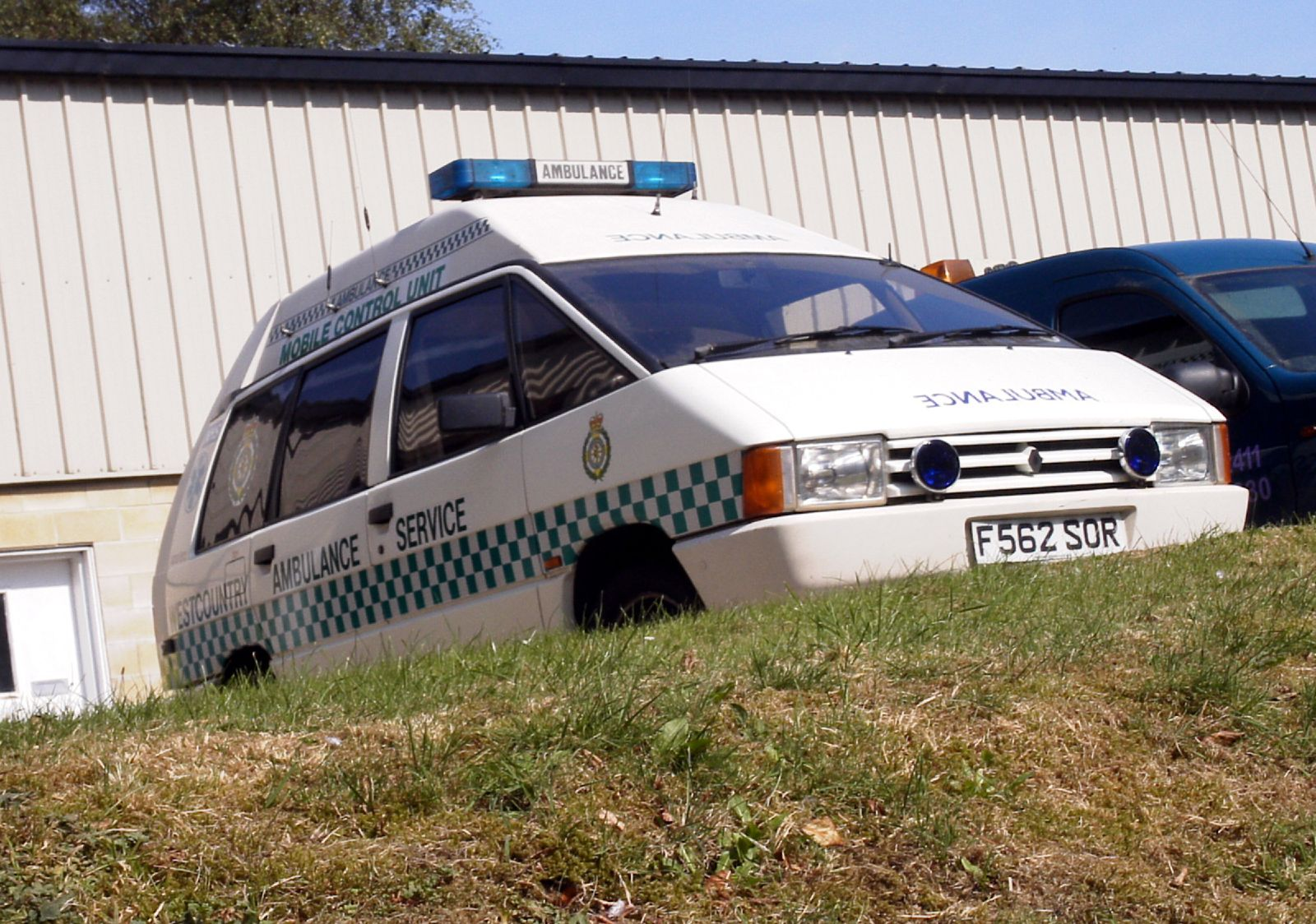 25 September 2002 RENAULT ESPACE GTS AMBULANCE 1995cc (31/12/1989) PETROL